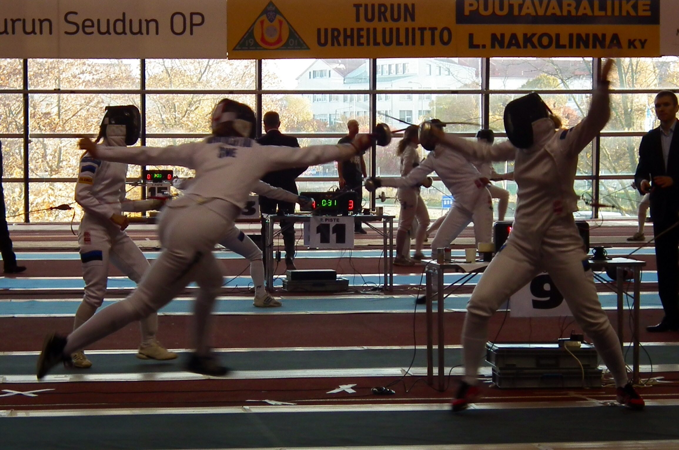 Barvestad vs Kusk at Kuupita Turnament Oct -13